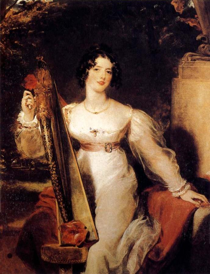 Lady Elizabeth Conyngham (1799–1839) was the daughter of Henry Conyngham, 1st Marquess Conyngham and Elizabeth Conyngham, Marchioness Conyngham. She married Lord Strathavon (eldest son of the 5th Earl of Aboyne), who became Earl of Aboyne in 1836 when his father became Marquess of Huntley. She died before her father-in-law, so was never Marchioness of Huntly, remaining Countess of Aboyne. This portrait of Lady Elizabeth Conyngham is frequently misidentified as one of her mother, who would have been more than 50 years old (and was Countess Conyngham) when it was painted. It is also sometimes confused with another painting in the Calouste Gulbenkian by Gainsborough, of Mrs. Lowndes-Stone.